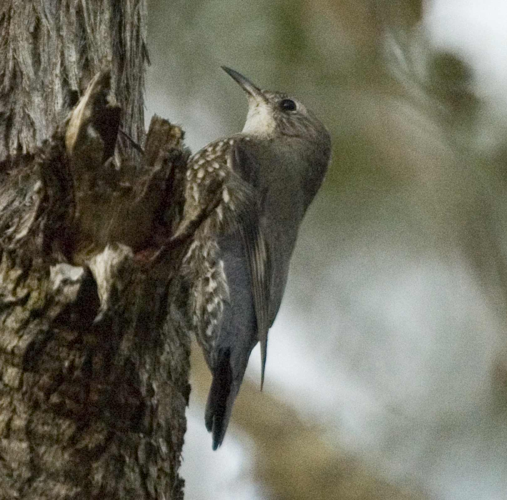 White-throated Treecreeper (Cormobates leucophaea) Kobble Creek, SE Queensland, Australia